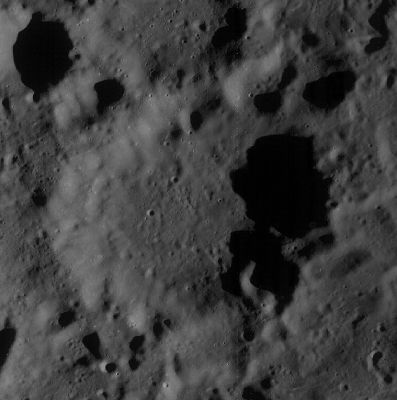 LROC WAC image (No. M130687997ME.